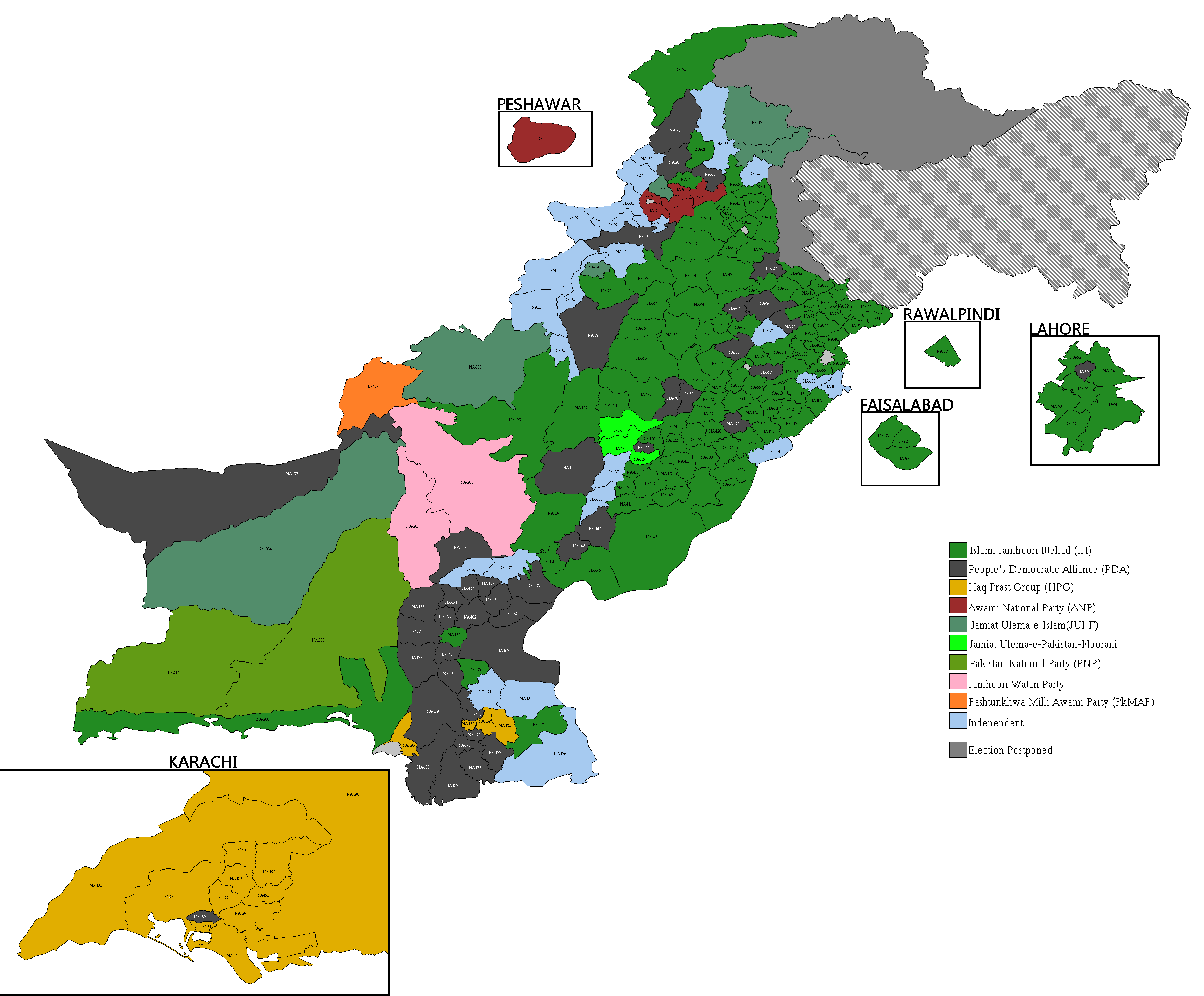 Map of Pakistan showing National Assembly Constituencies and winning parties